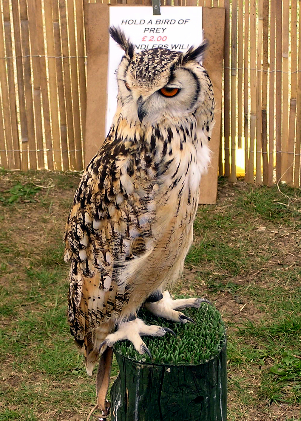 Bengal Eagle Owl Bubo bengalensis at Avon Valley Wildlife Park, Bristol, England. Also called Indian Eagle Owl and Rock Eagle Owl